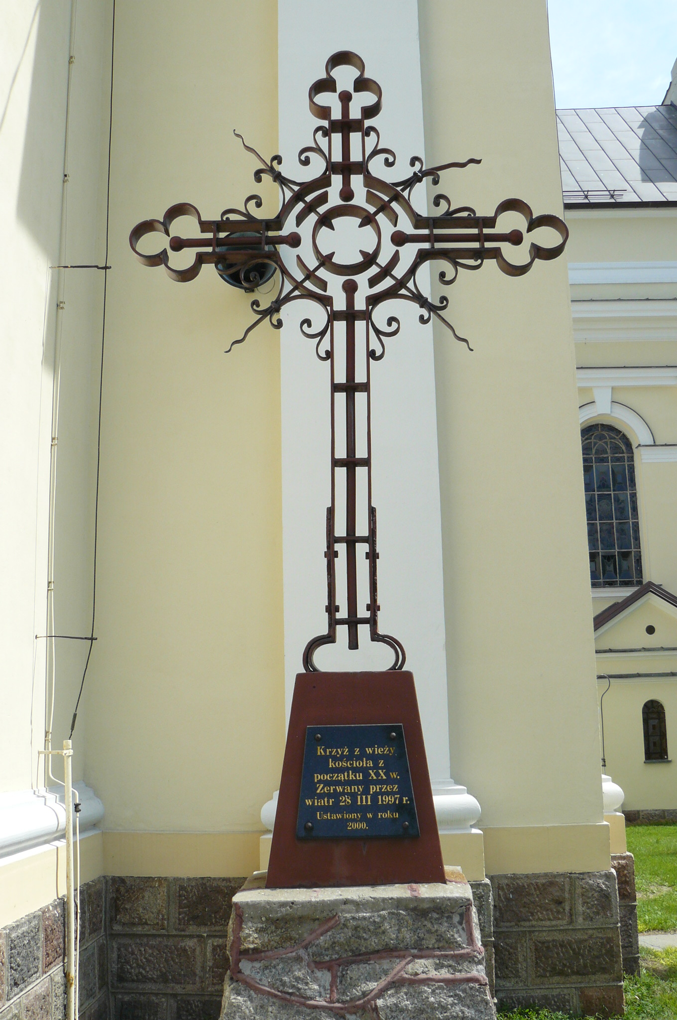 Dobra. The cross that fell from the church tower. This was the result of the storm in 1997.